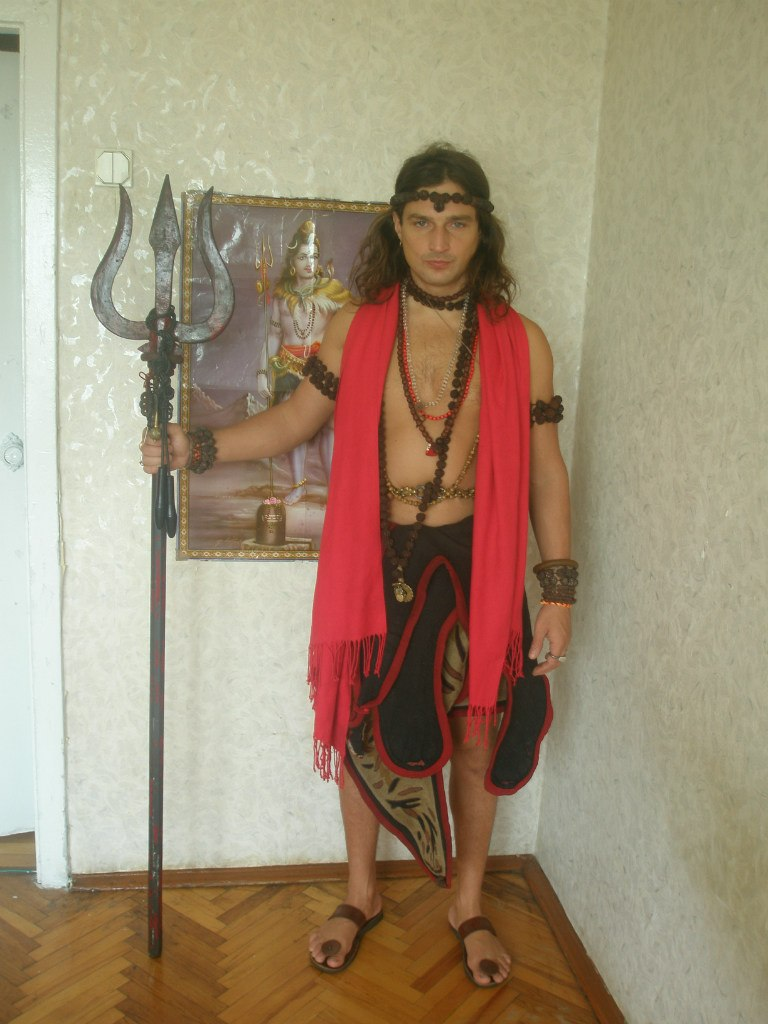 Guru of ashram SHAKTI